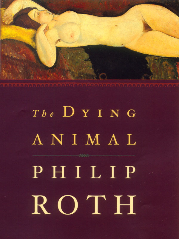 Front cover to The Dying Animal by Philip Roth